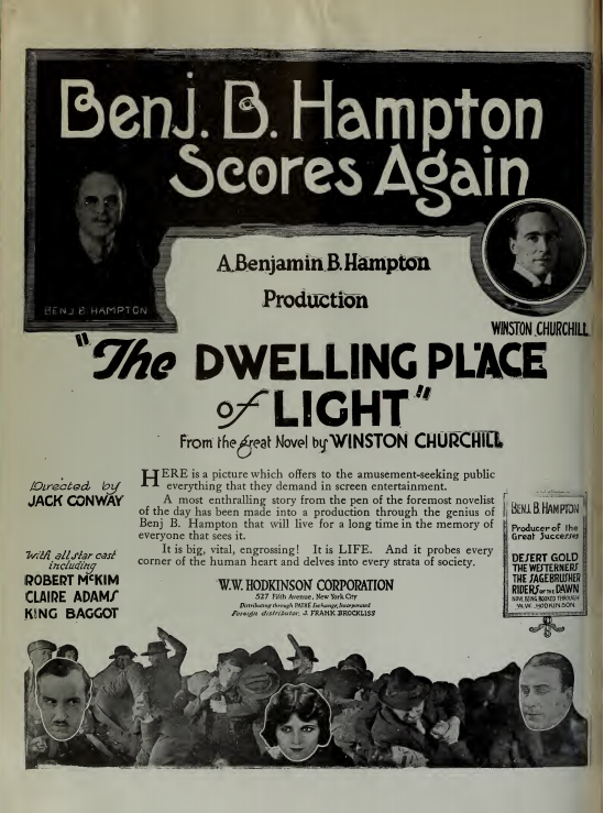 Advertisement for the film The Dwelling Place of Light (1920) directed by Jack Conway.